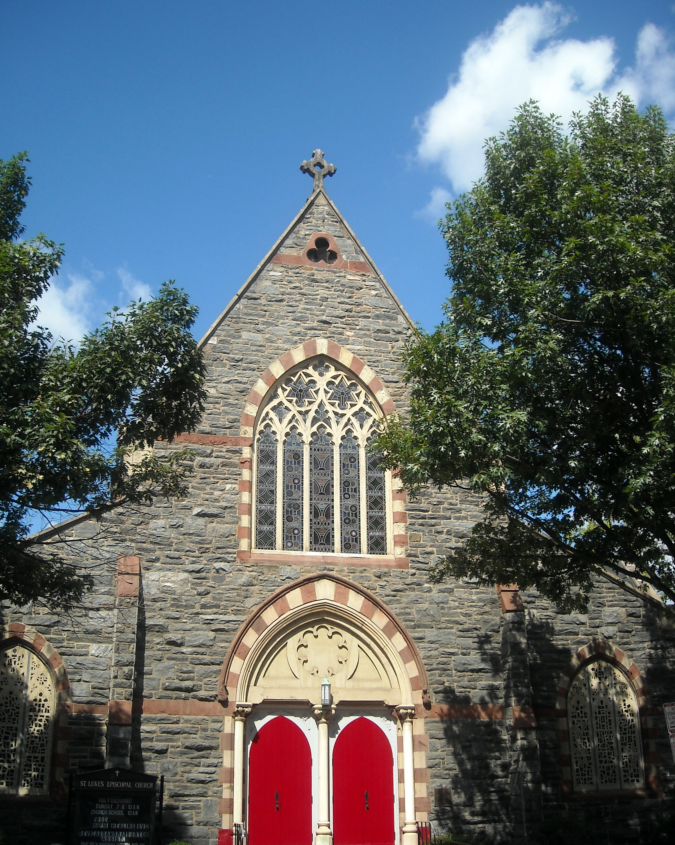 St. Luke's Episcopal Church at 1514 15th Street, NW in Washington, D.C. The church, built in 1880 as the first independent black Episcopal church in D.C., is a National Historic Landmark